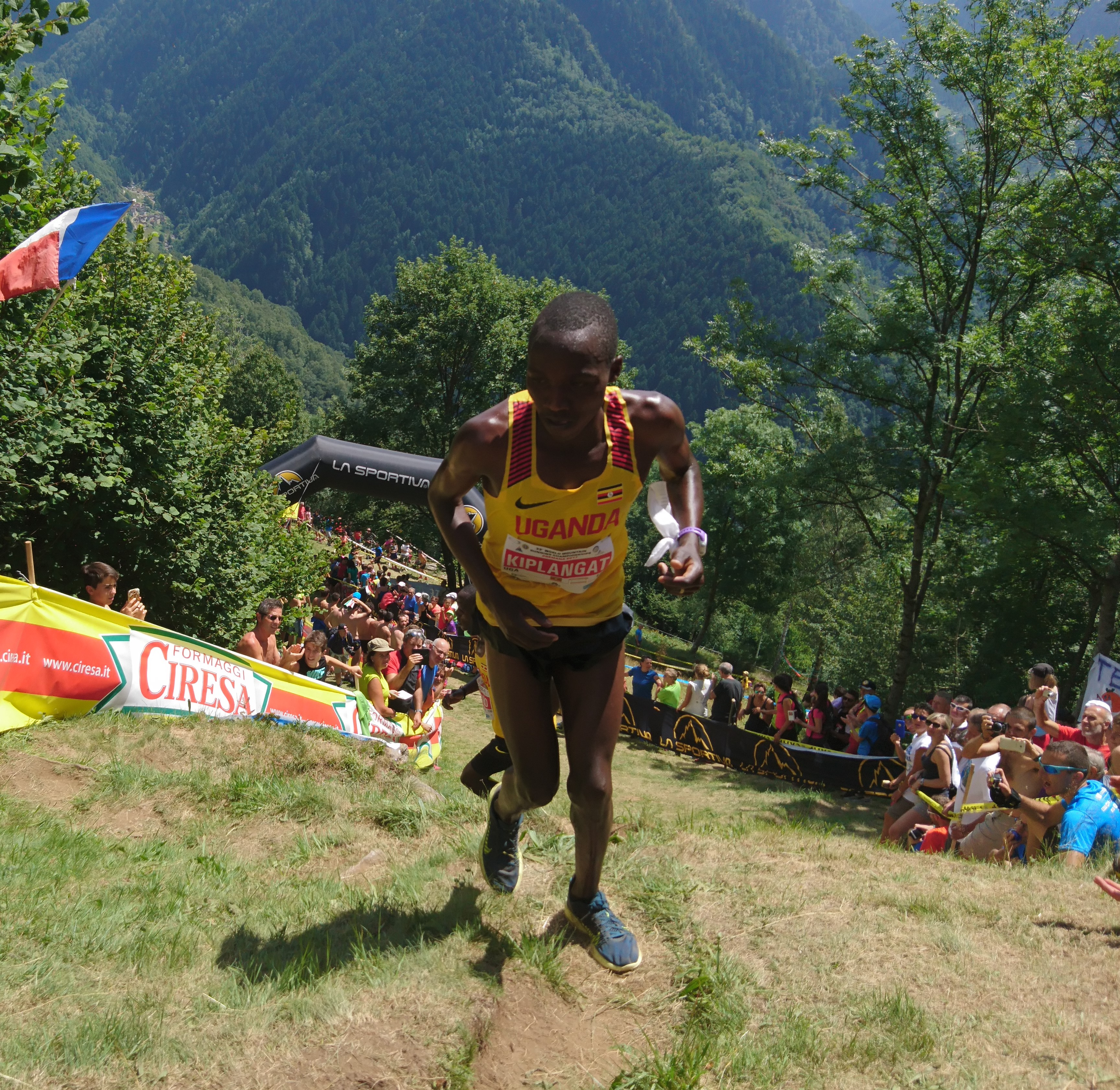 Victor Kiplangat at Mountain Running World Champs in Premana 2017